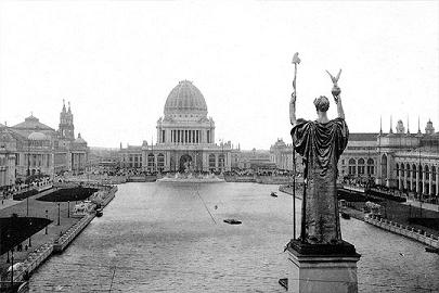 Court of Honor and Grand Basin of the 1893 World's Columbian Exposition (Chicago, Illinois)